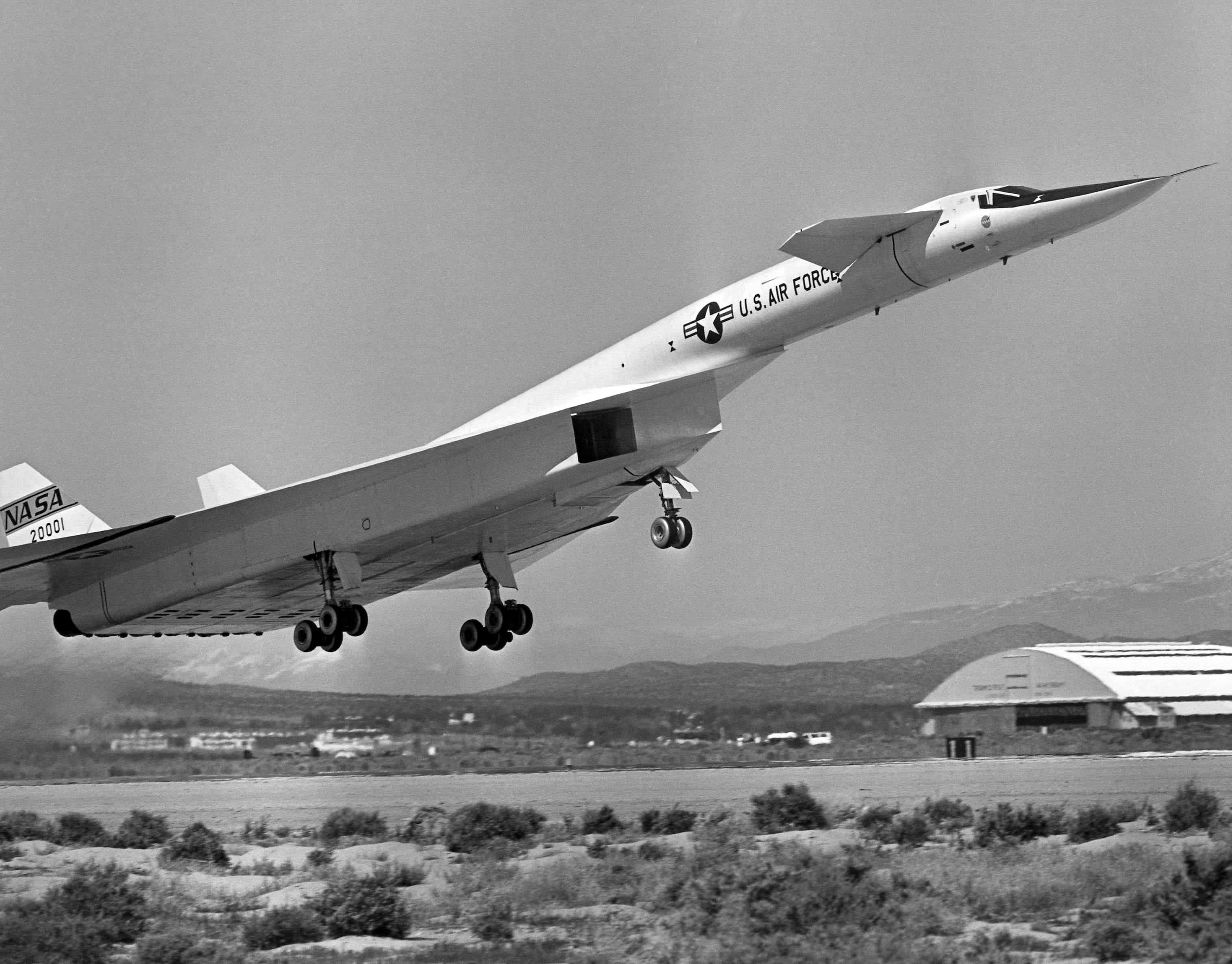 North American XB-70 Valkyrie (Ser. No 62-0001) during take-off rotation